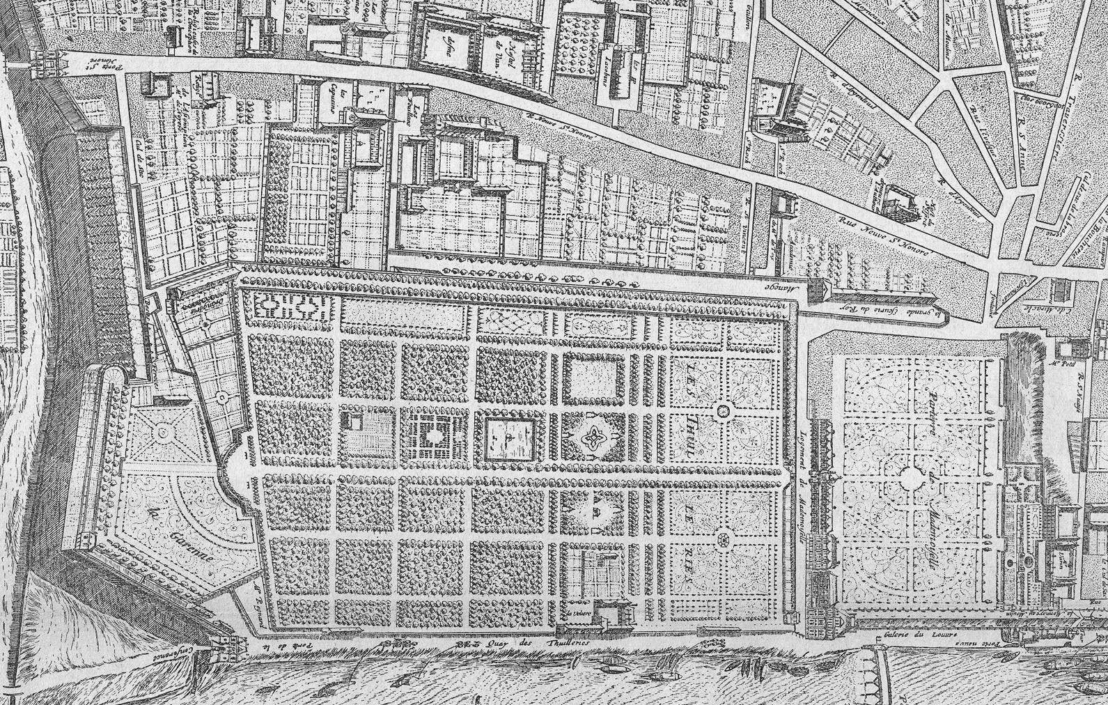 View of the Tuileries Gardens and Palace on the 1652 Gomboust map of Paris